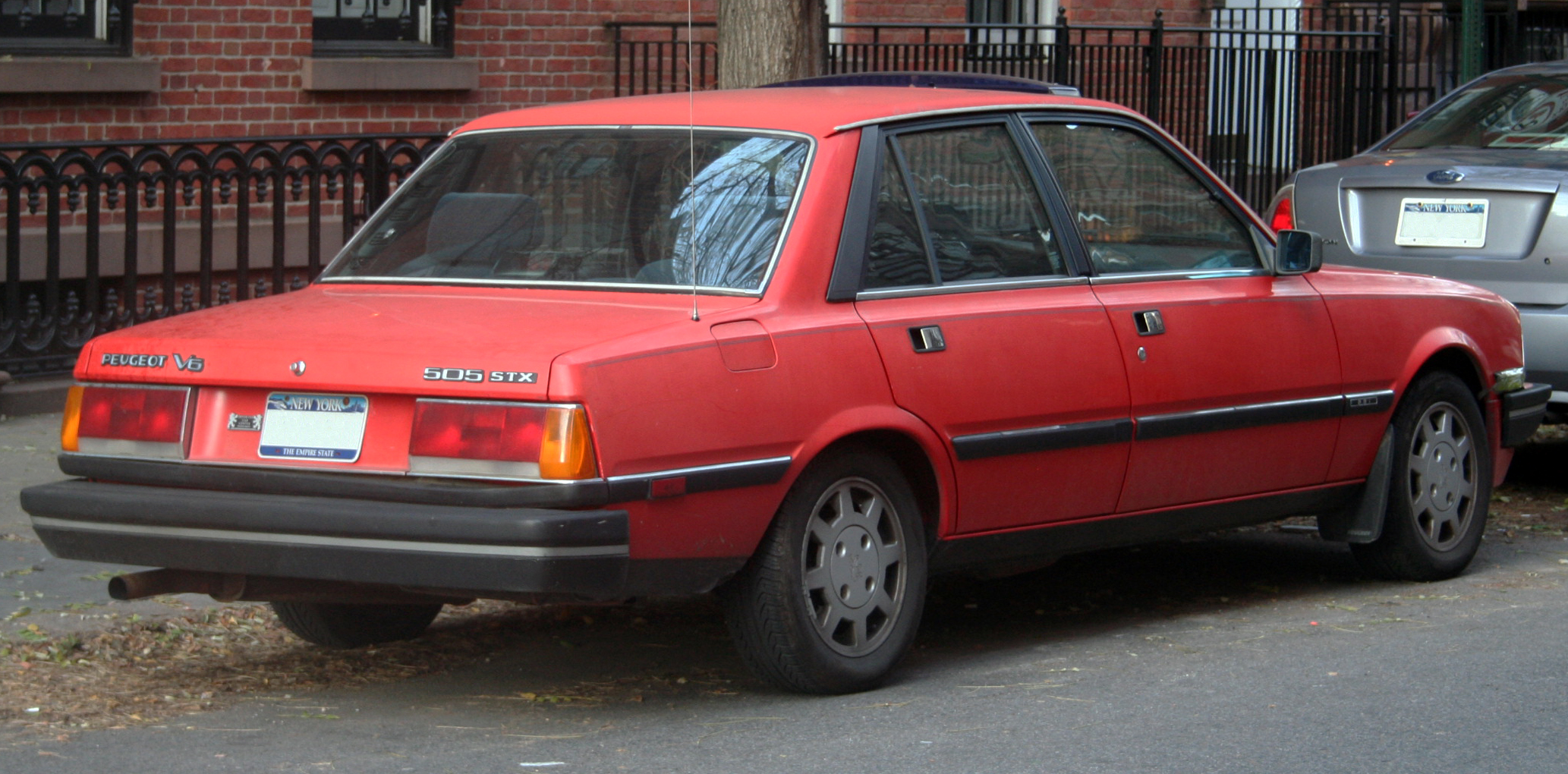 US market, 1988 Peugeot 505 STX V6